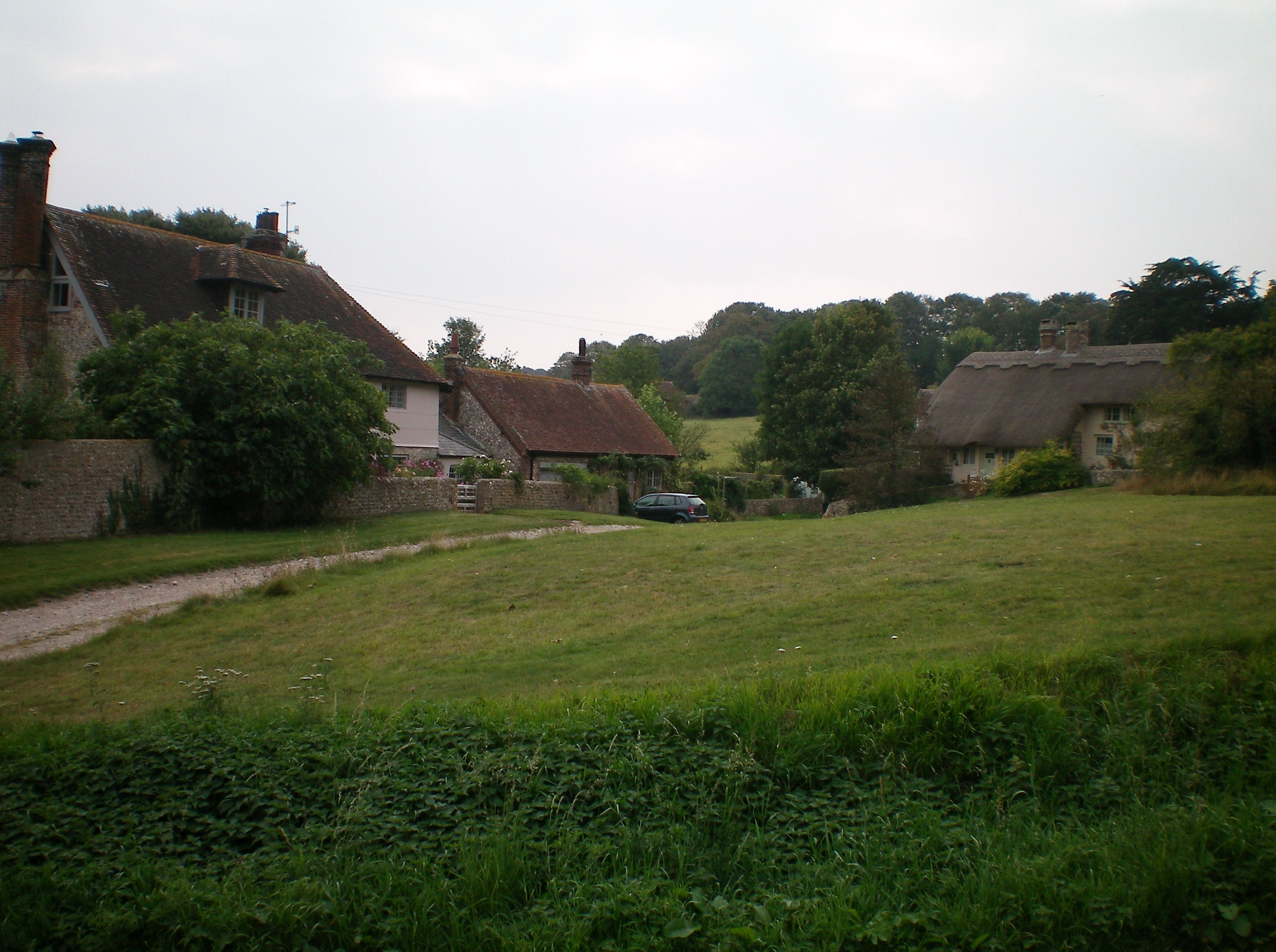 The green at Southease, East Sussex, England.